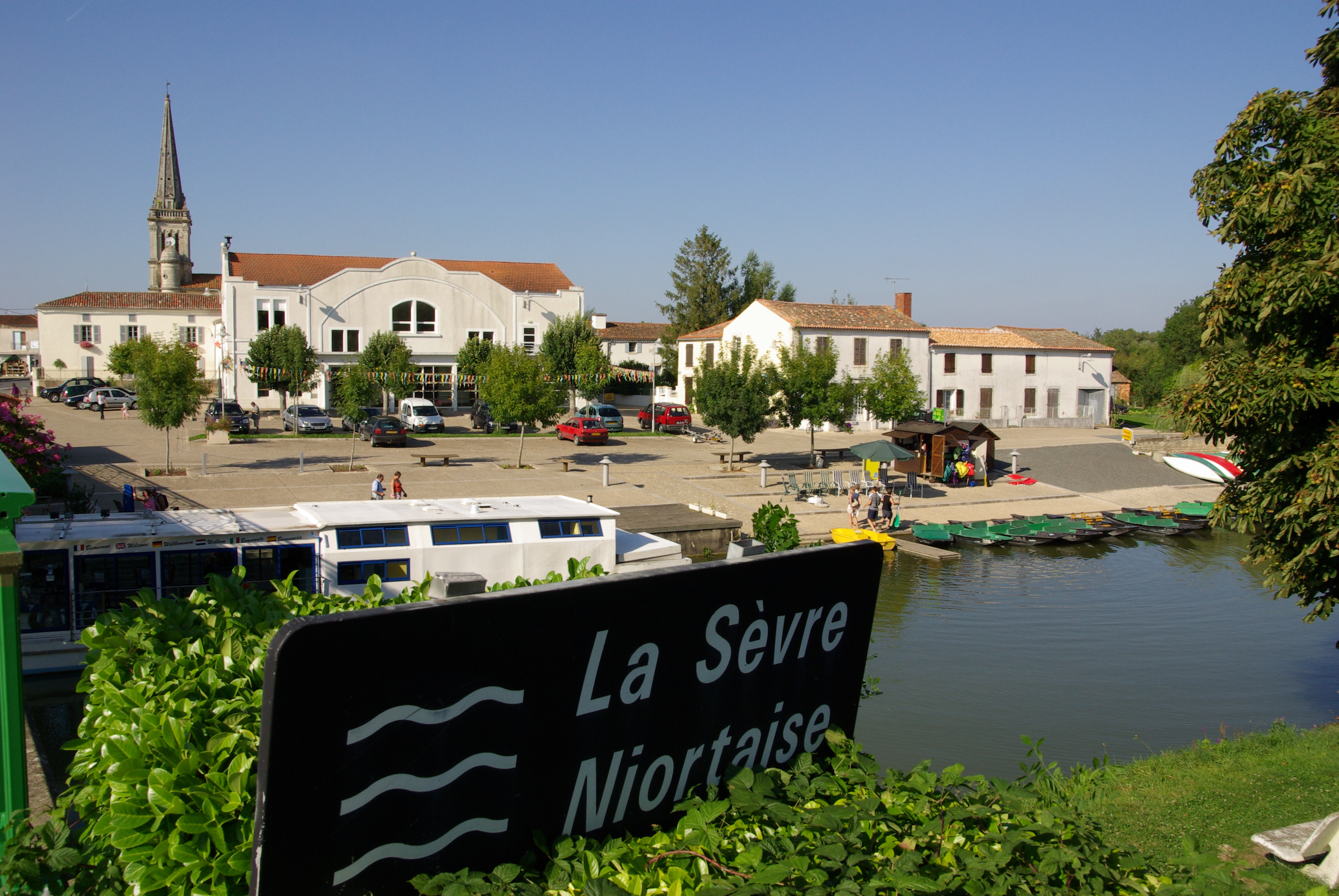 The river port of Damvix, in the Marais Poitevin, Vendée, France.